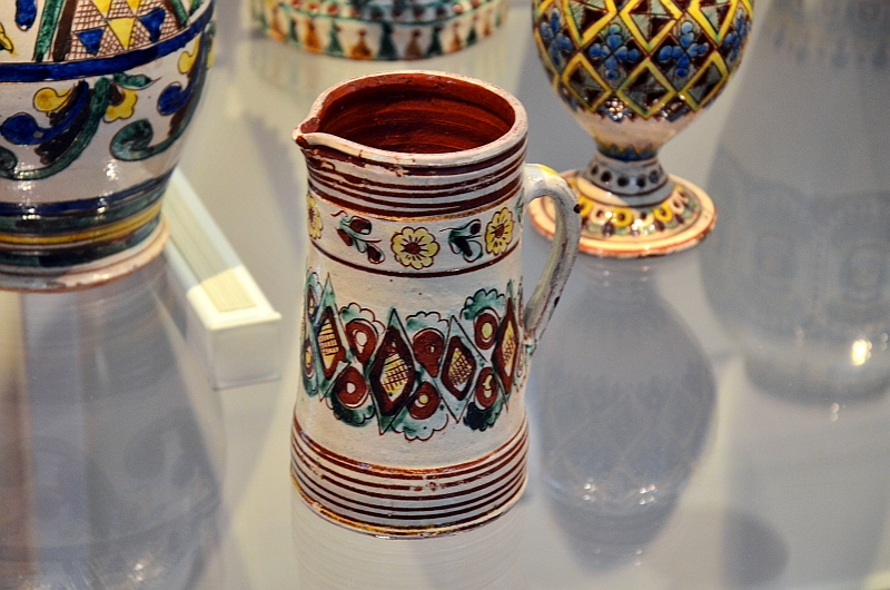 Ceramics in the Historical Museum in Sanok